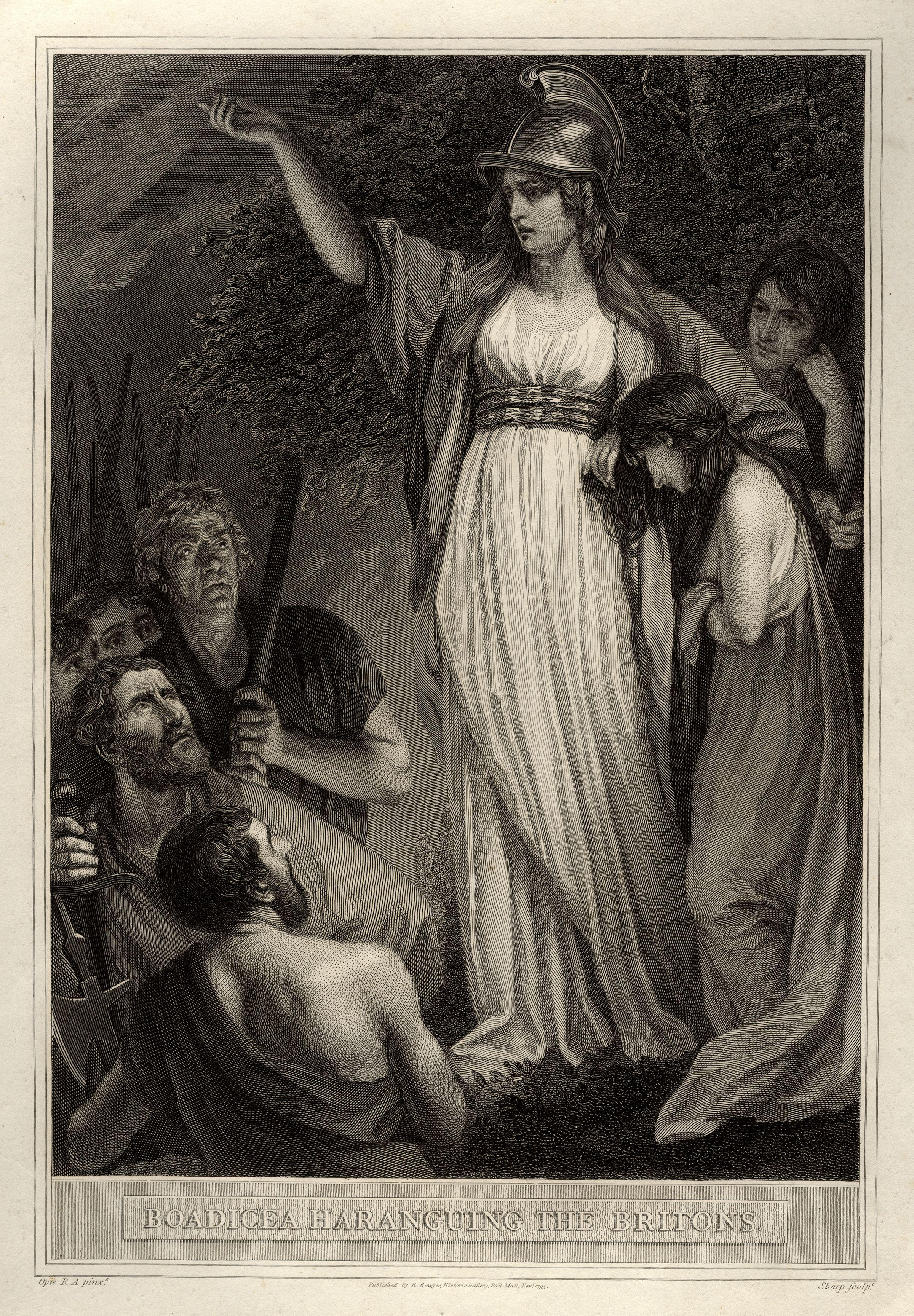 An engraving by William Sharp published in 1793, based on Boadicea Haranguing the Britons (called Boudicca, or Boadicea) by John Opie (died 1807). All images in this batch have been confirmed as author died before 1939 according to the official death date listed by the NPG.